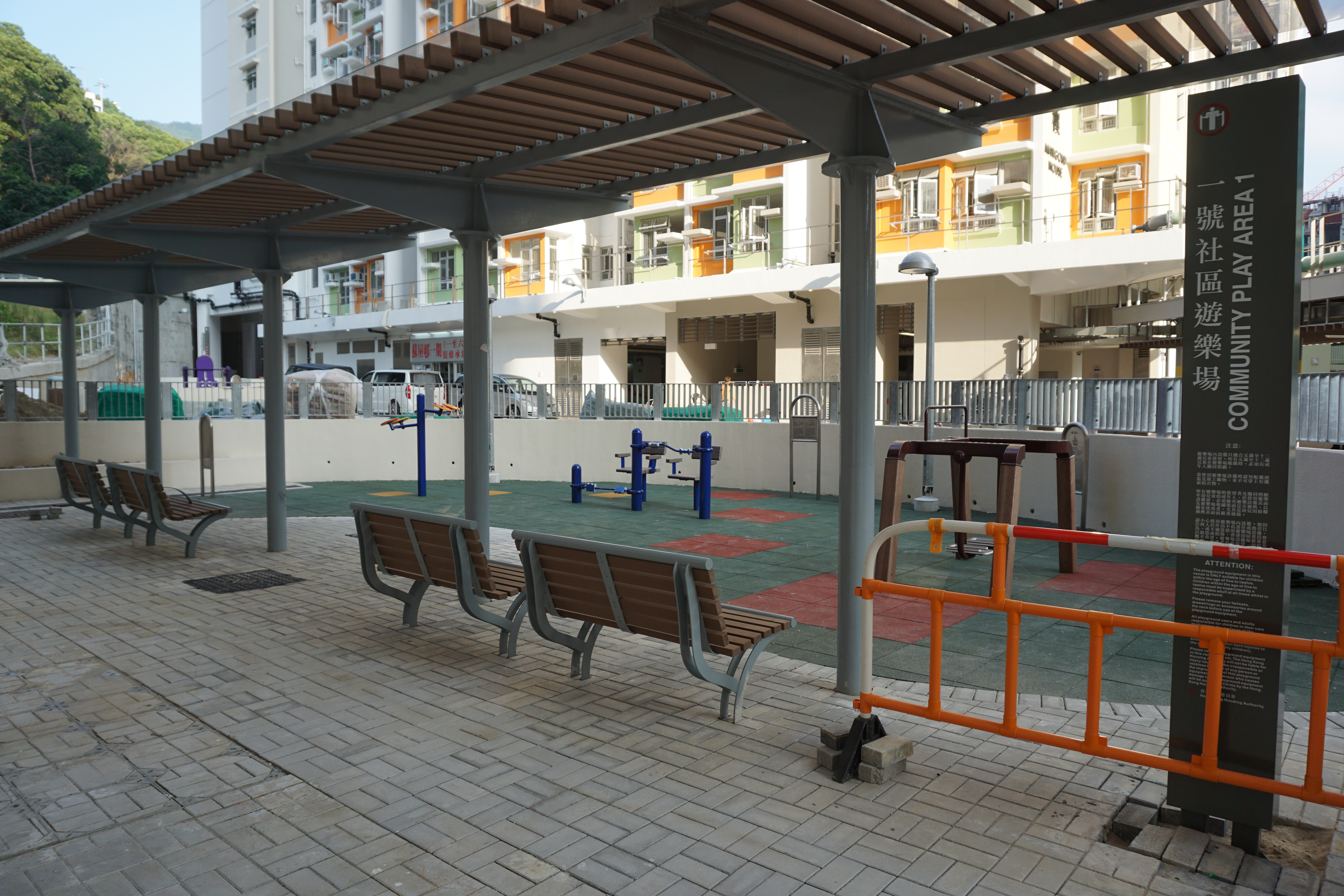 So Uk Estate in Cheung Sha Wan, Hong Kong.